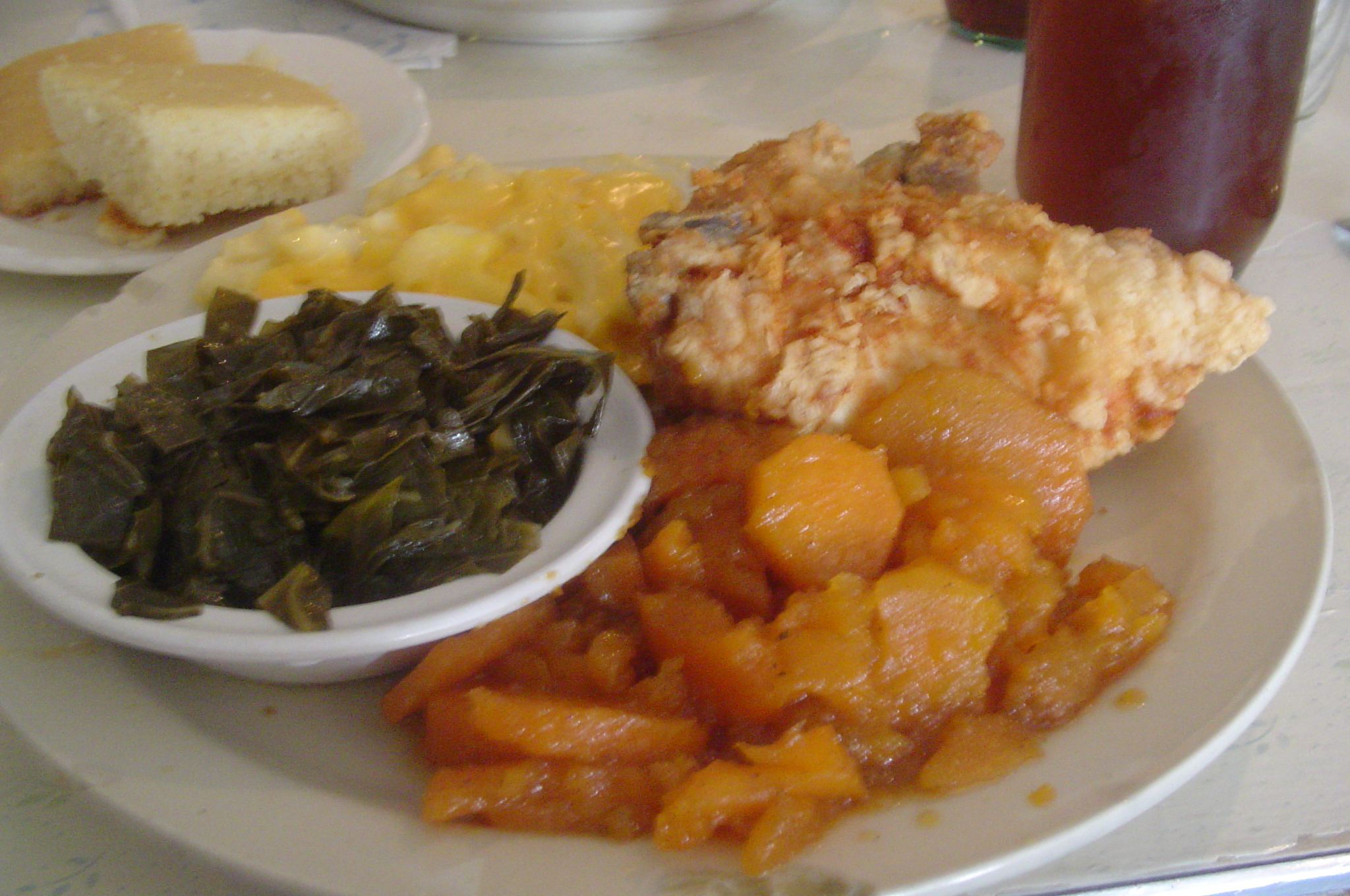 Cornbread, collard greens, macaroni and cheese, fried chicken, yams, and sweet tea. Almost makes me weep for home. This is a place called Hollywood Inn, and I've been going there for about fifteen years. It's just about a block down from the WC Handy home.